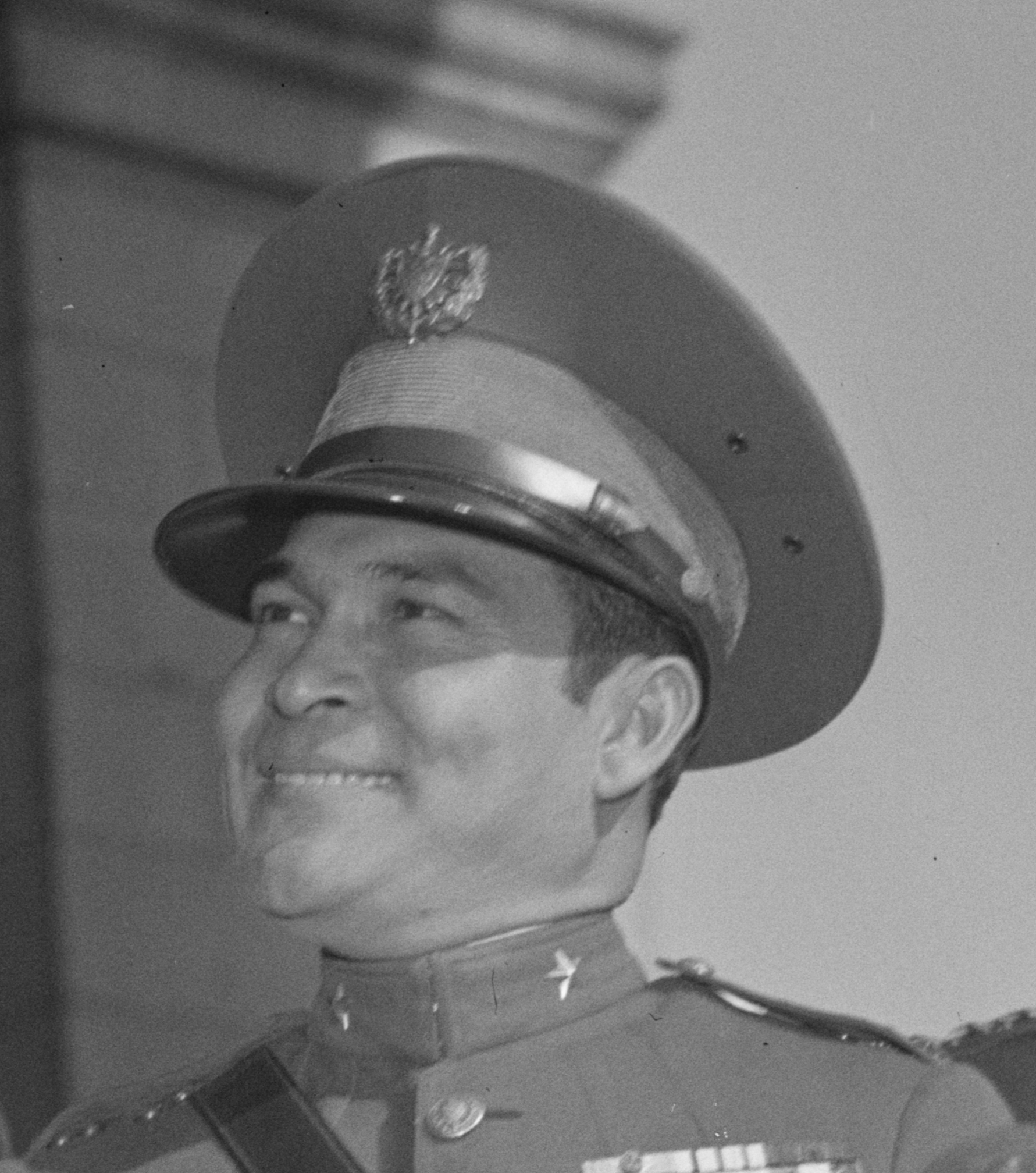 Cuba's Dictator Fulgencio Batista in Washington, D.C., 1938